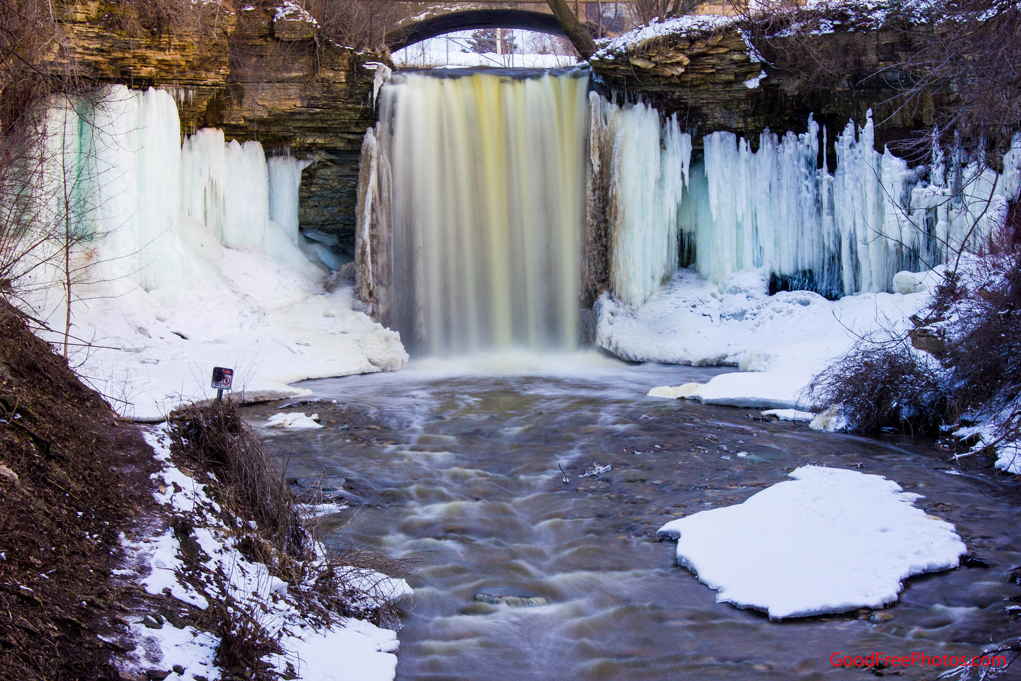 500px provided description: Scenic Wequiock Falls near Green Bay, Wisconsin. Full HD Download without Watermark for any purpose: [#landscape ,#winter ,#water ,#river ,#snow ,#ice ,#scenic ,#wisconsin]